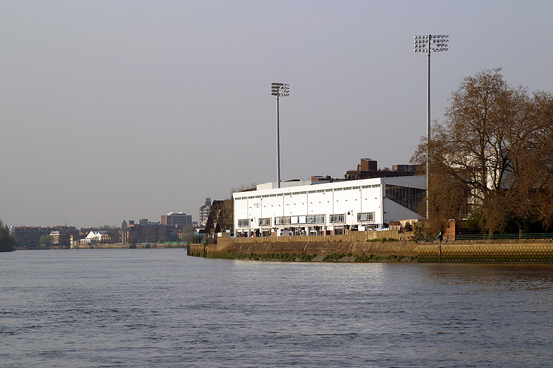 View of Craven Cottage from the Thames. Category:Images of the Boat Race